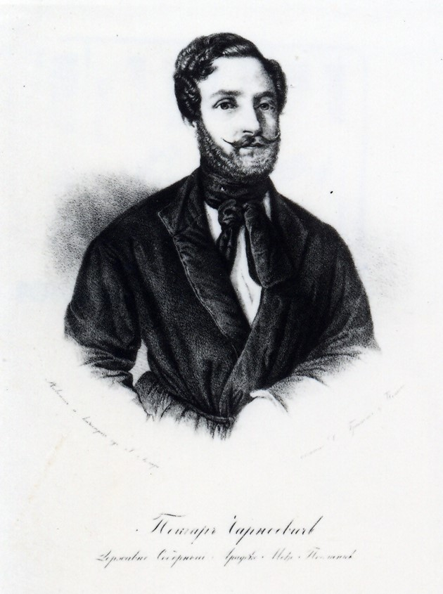 Portrait of Petar Čarnojević (1810-1892), Hungarian nobleman of Serbian origin (Pest, ca. 1845). Srpski (latinica): Portret Petra Čarnojevića (1810-1892), ugarskog plemića srpskog porekla (Pešta, oko 1845).